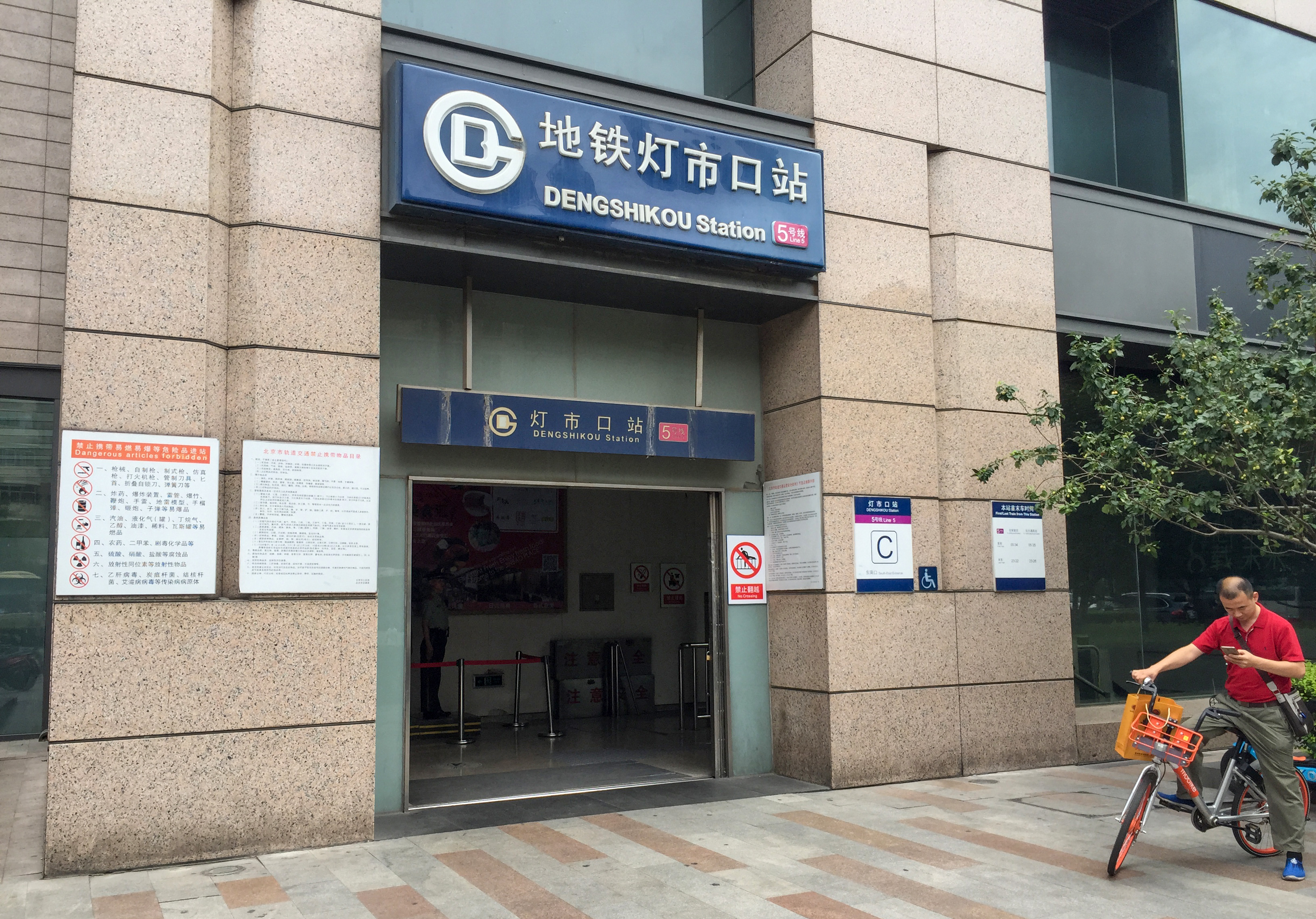 Armed police on guard, but the reason unknown. No national leaders around here...